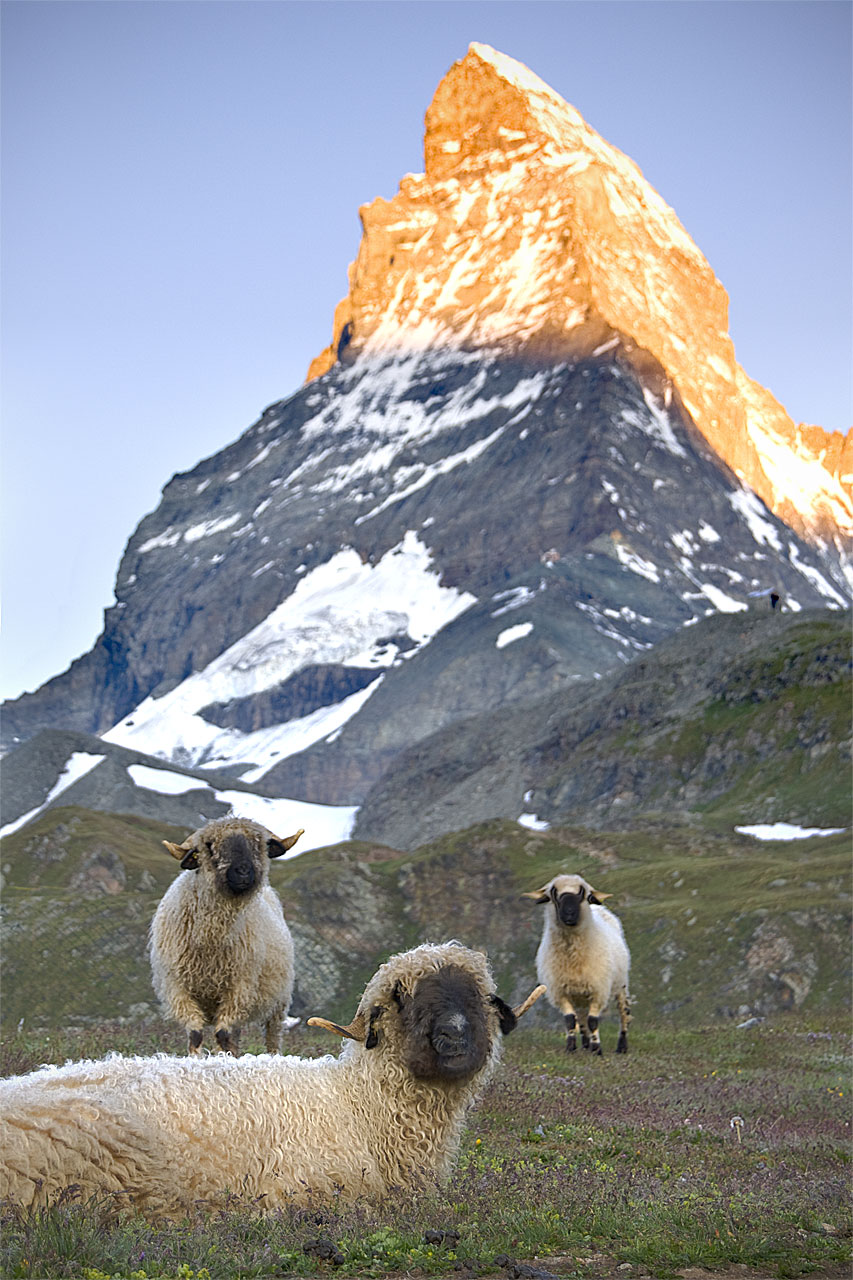 View On Black. Starting to clear out my cache of unprocessed photos from the summer. Here's a few from Switzerland.